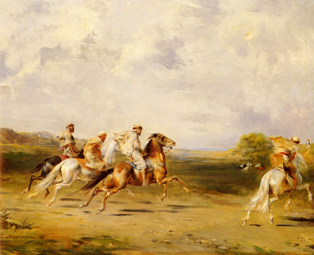 Eugene Fromentin's art